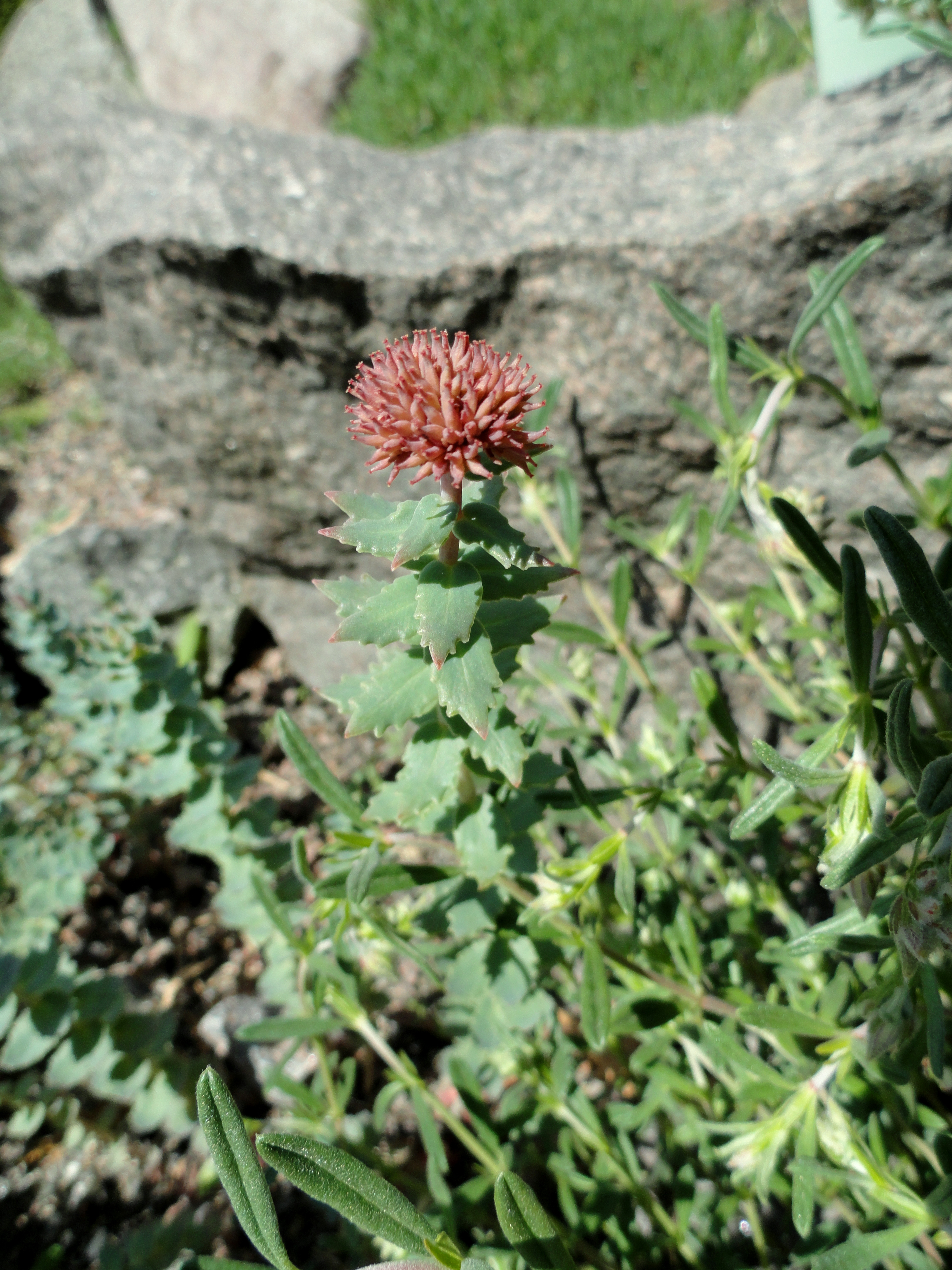 Botanical specimen in the University of Copenhagen Botanical Garden, Copenhagen, Denmark.